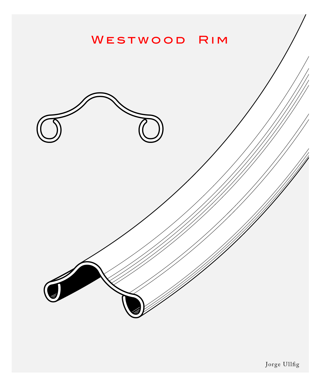 Westwood Rim